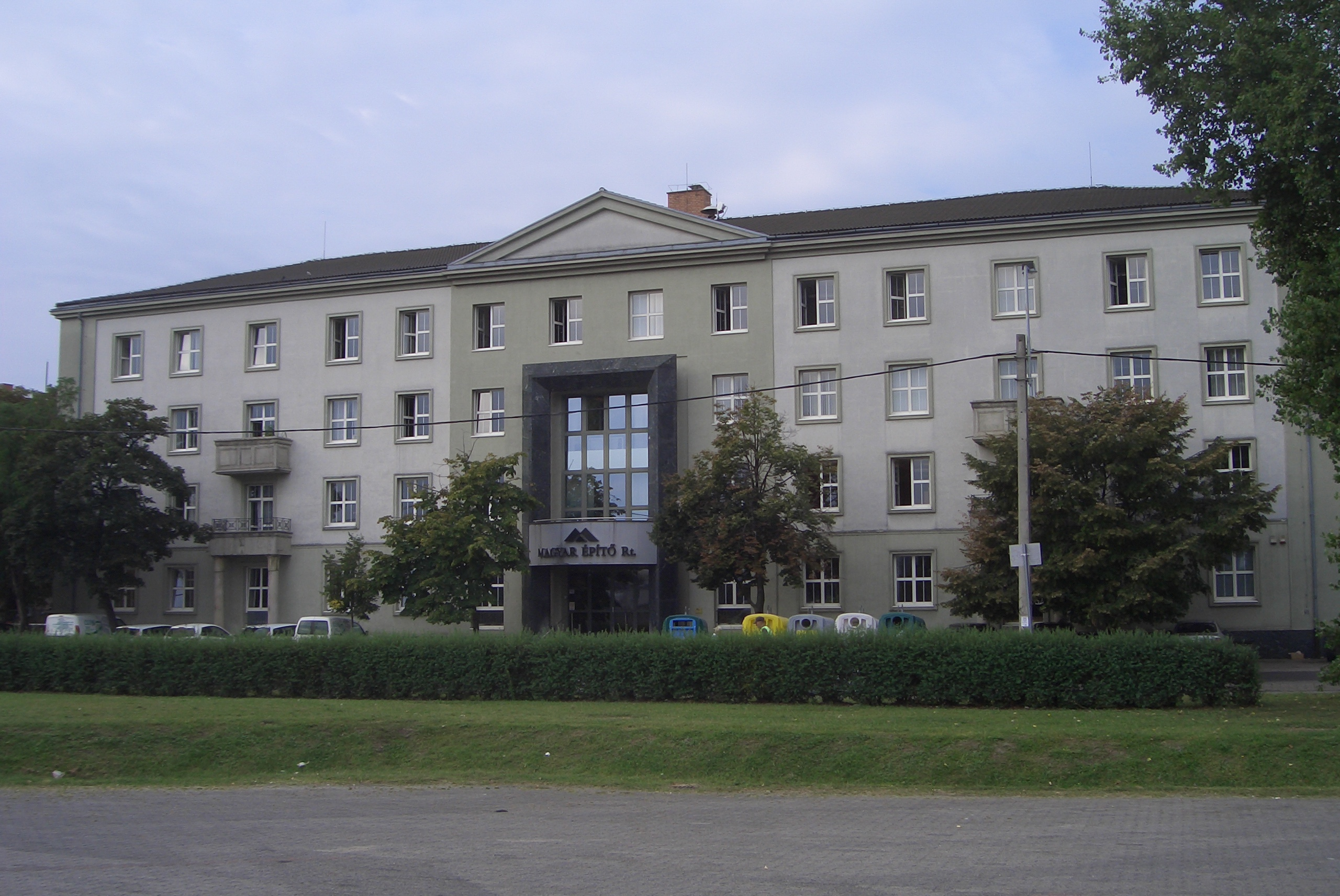 Company seat of the Magyar Építő Inc., Budapest, 14th district, Pillangó utca 28.